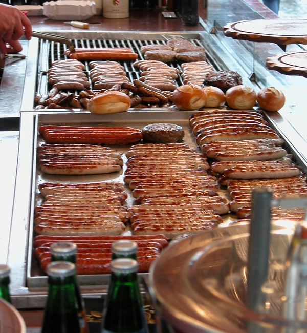 Variety of Bratwürste (grill sausages) on a stall at the Hauptmarkt in Nuremberg